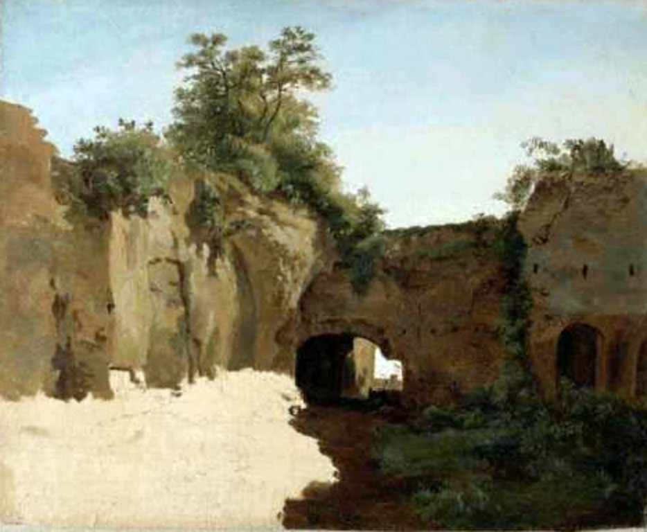 Antique Ruins (the Baths of Caracalla), oil on paper laid onto canvas, 30.0 x 37.6 cm.